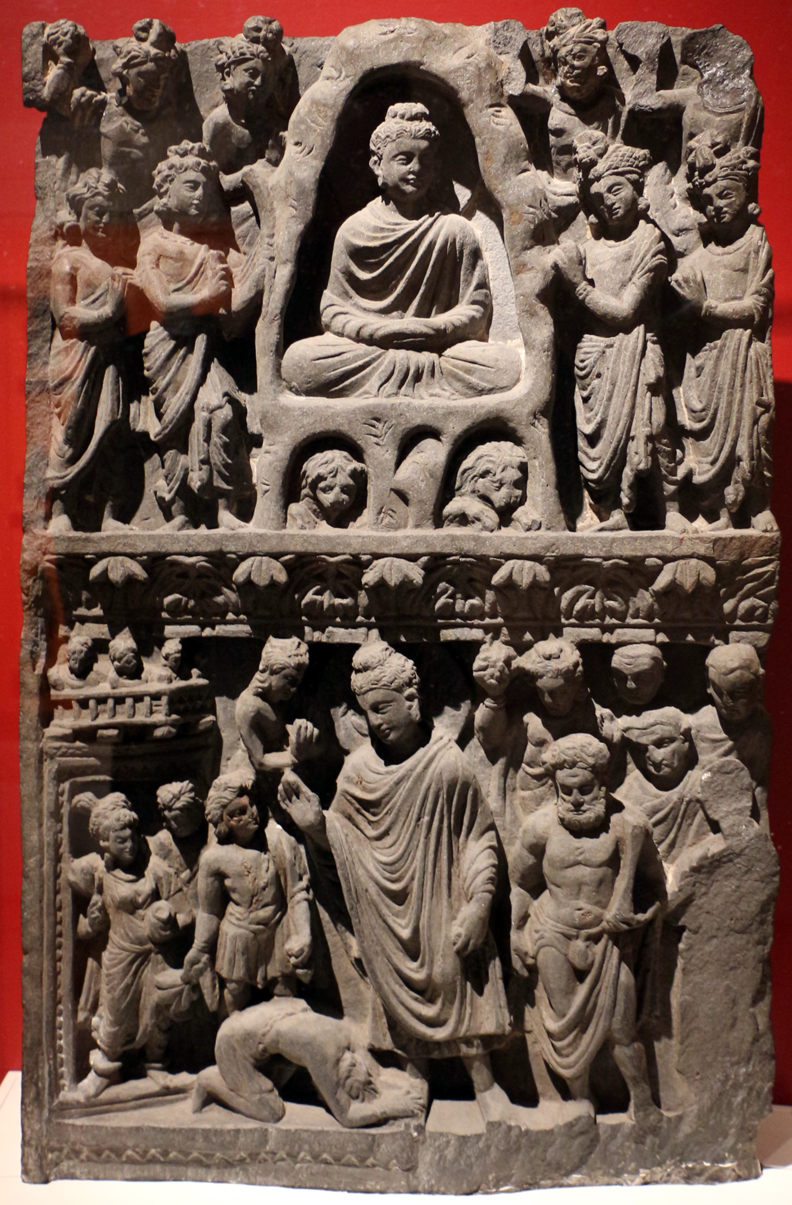 Art of Gandhara in the Art Institute of Chicago